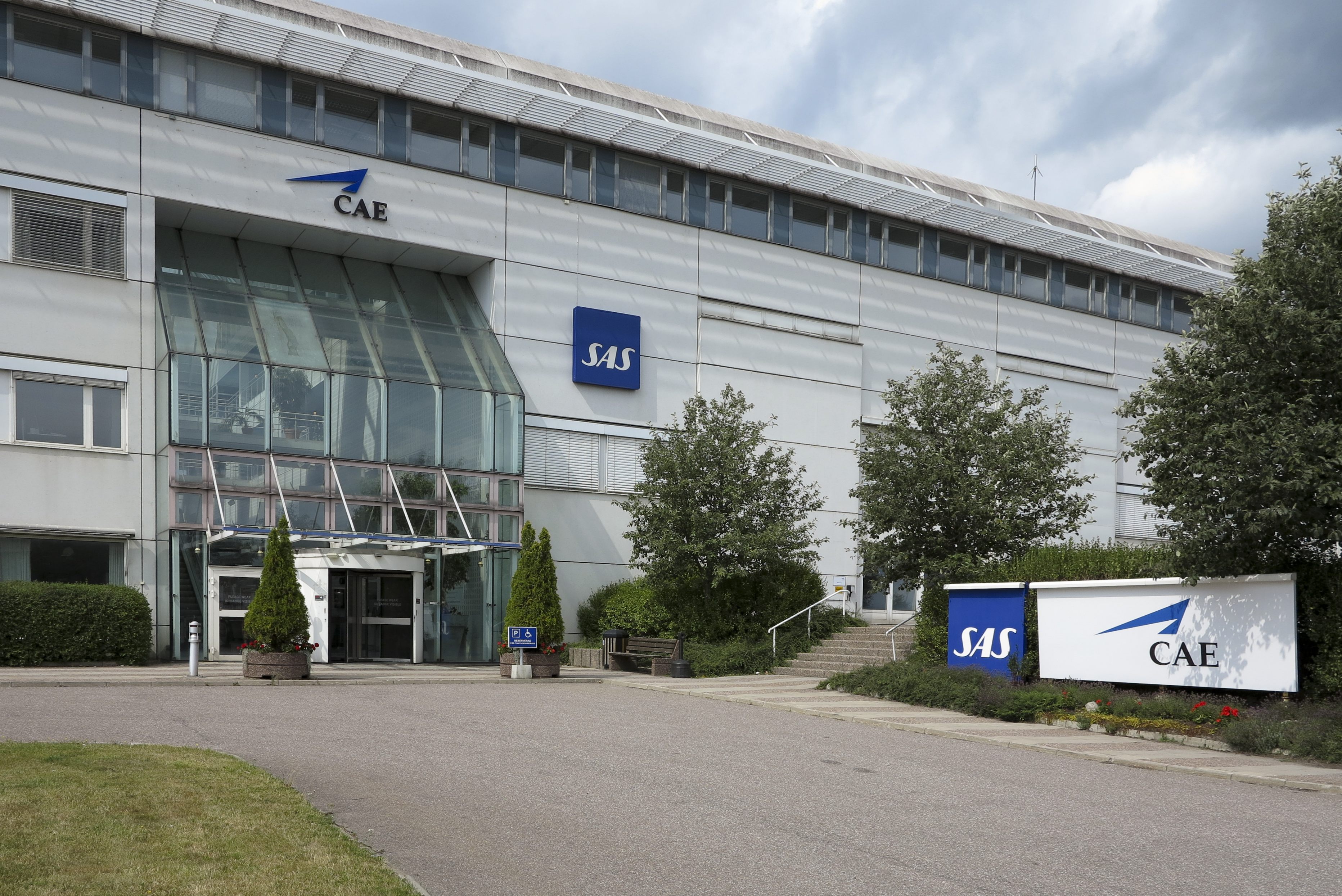 SAS office at Arlanda airport, Sigtuna, Sweden. Entrance.